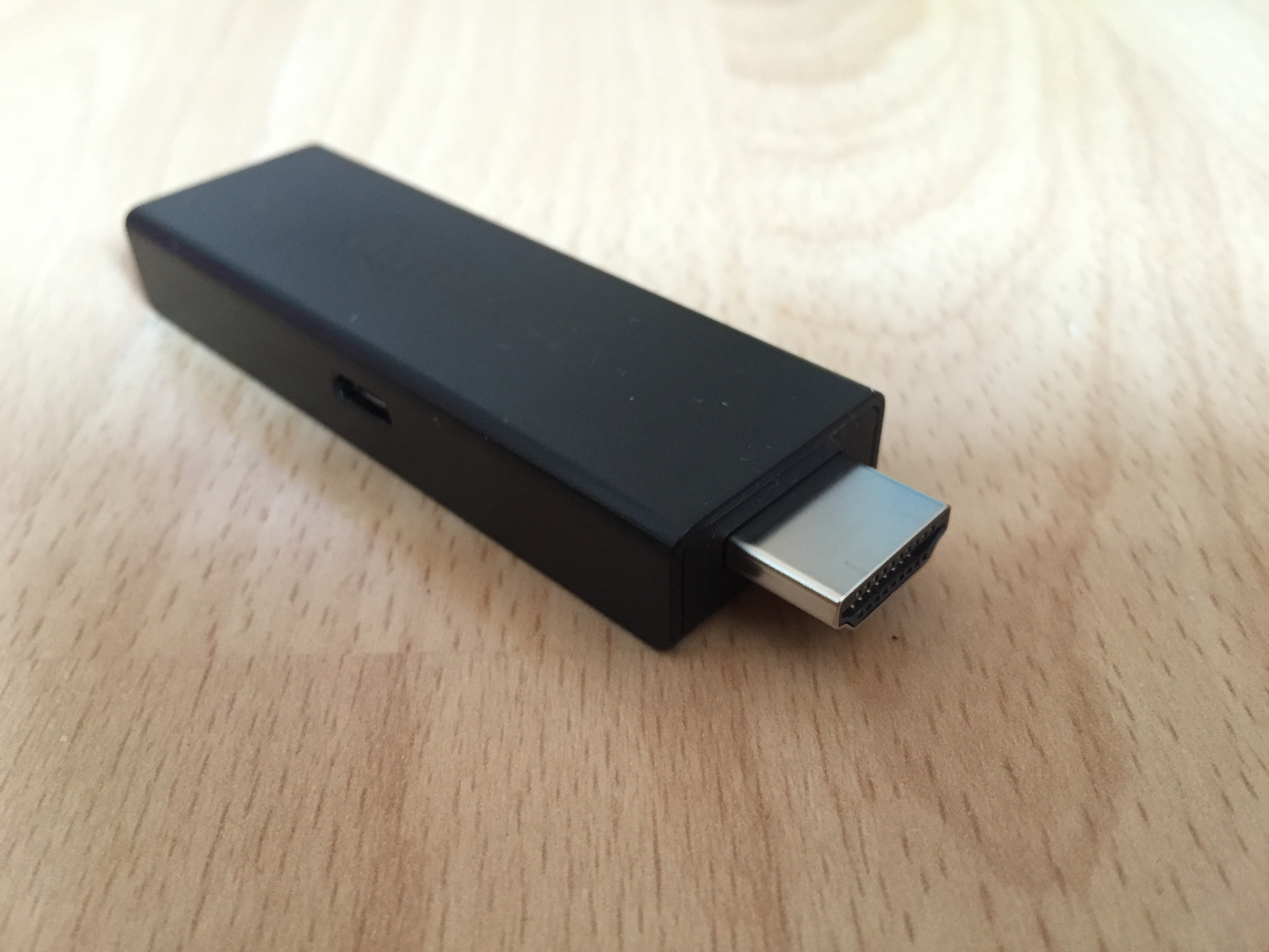 Amazon Fire TV Stick